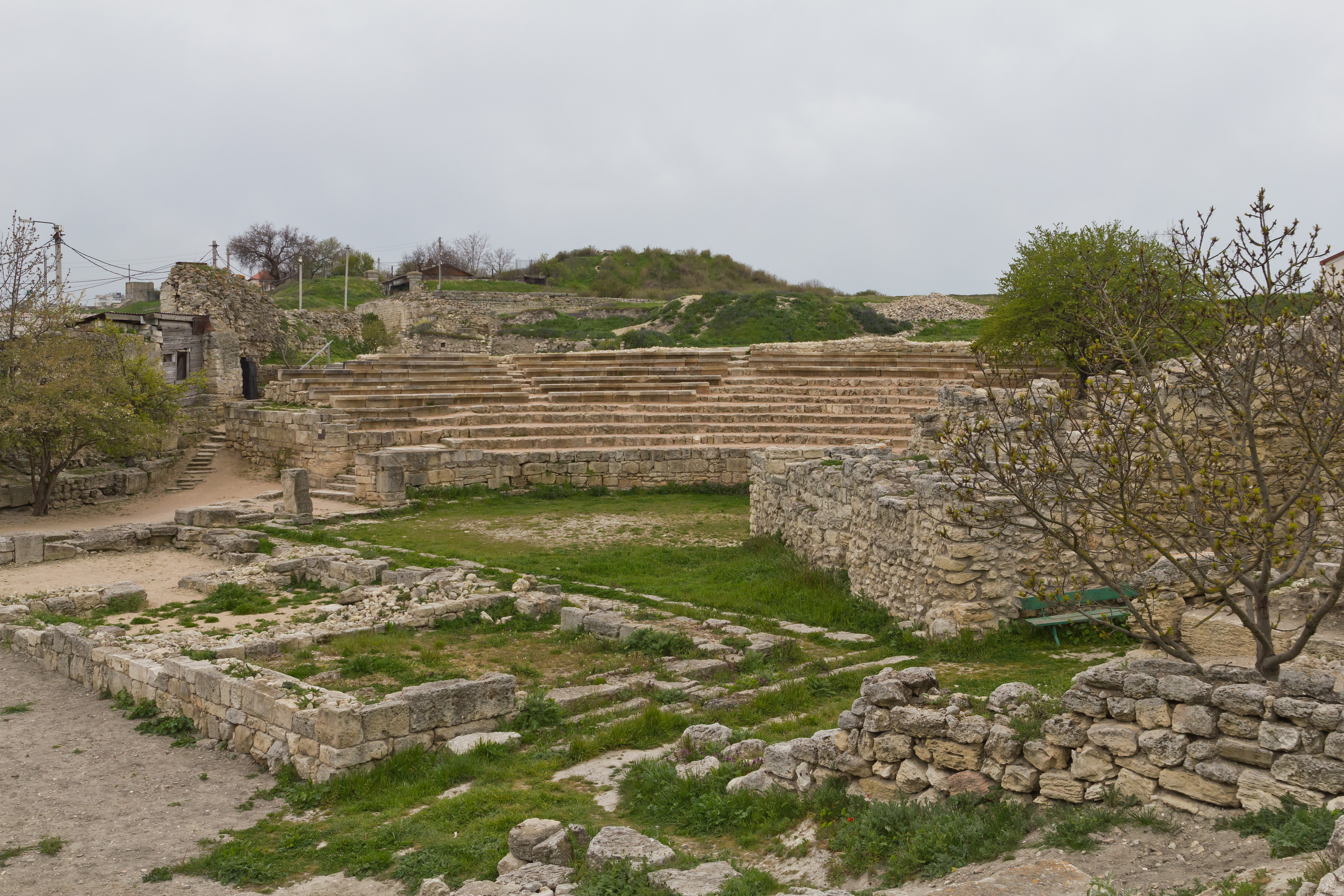 The archaeological site at Chersonesus in the Federal City of Sevastopol. Crimean peninsula.